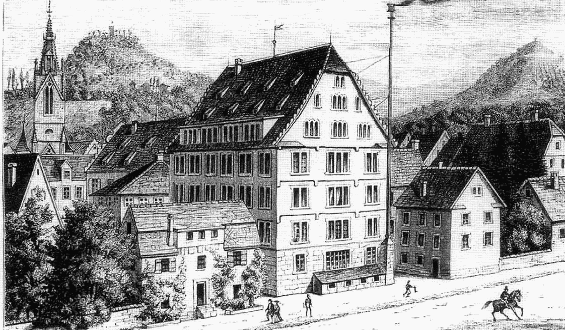 Reutlingen Spendhaus, Home of the Webschool